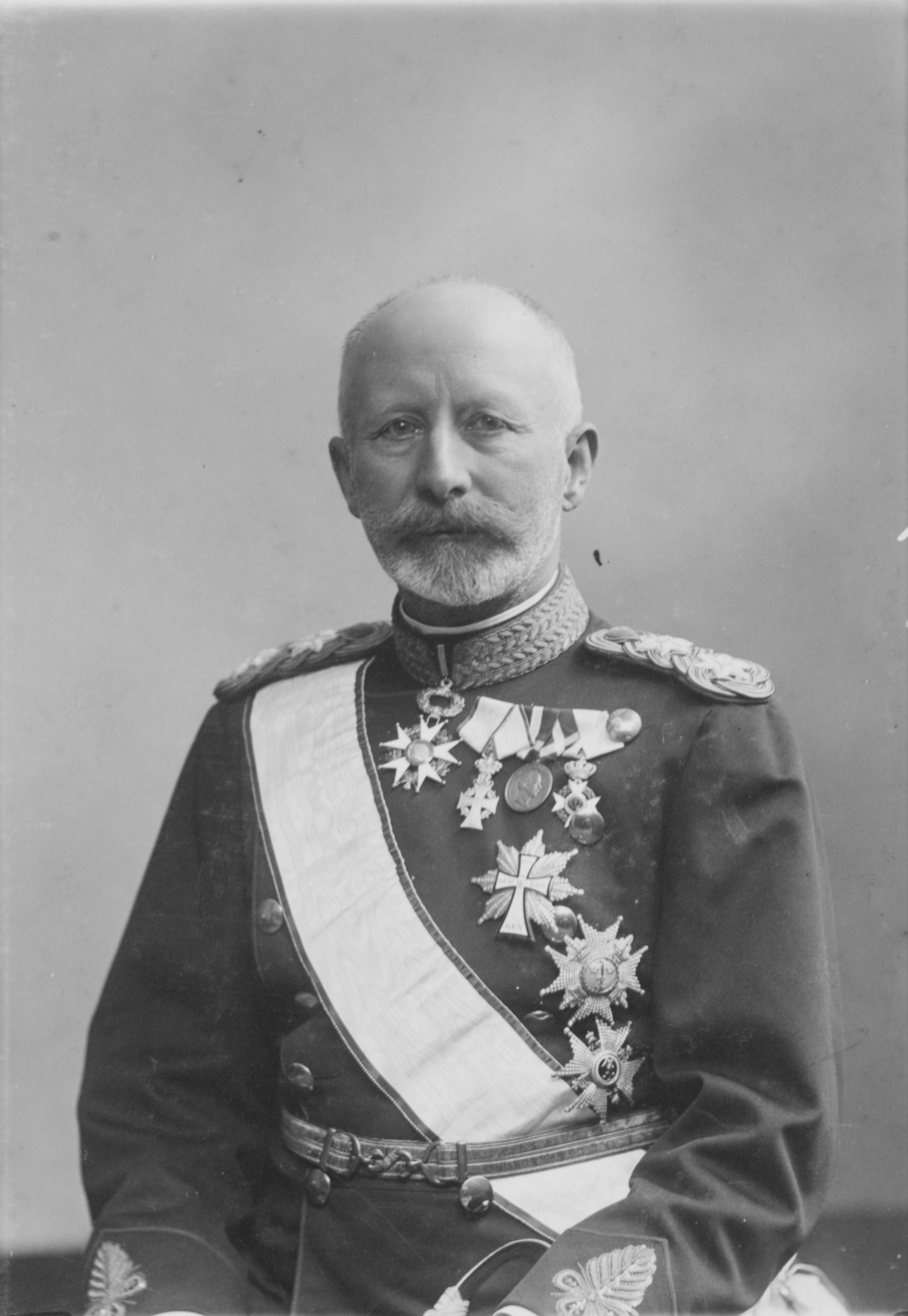 Jens Vilhelm Charles Gørtz (1852-1939), Danish Lieutenant General